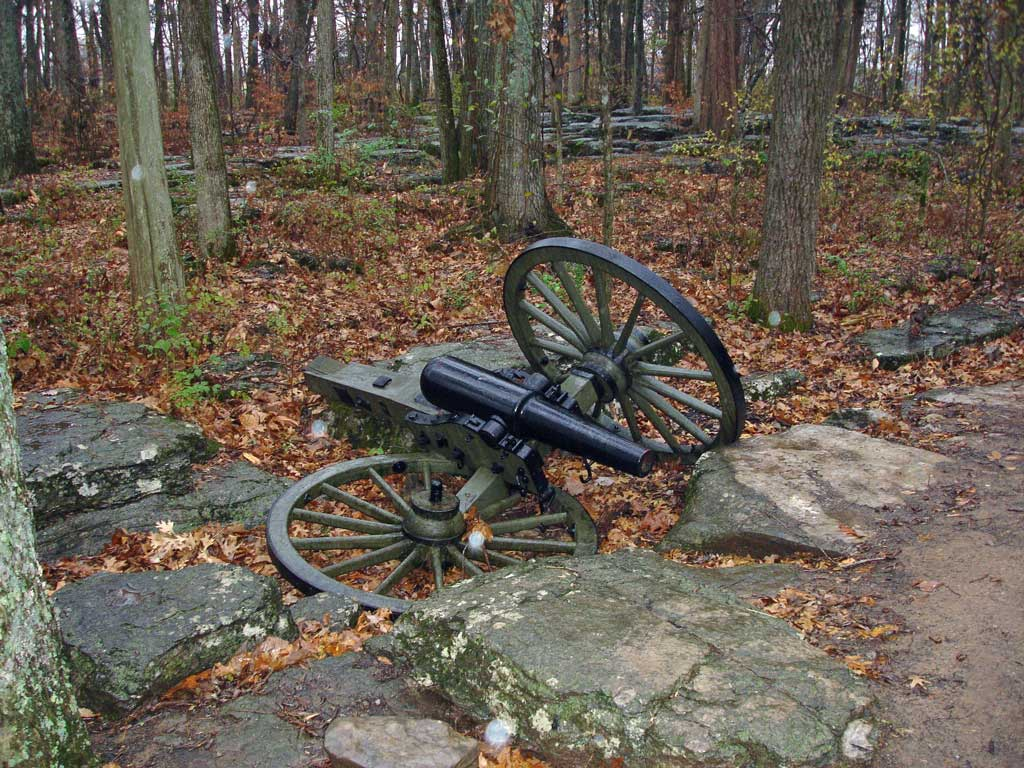 Rifled 6-pounder Wiard cannon, located at Stones River National Battlefield.[1] ↑ Cannon (STRI 101). National Park Service. Retrieved on 20 April 2018.